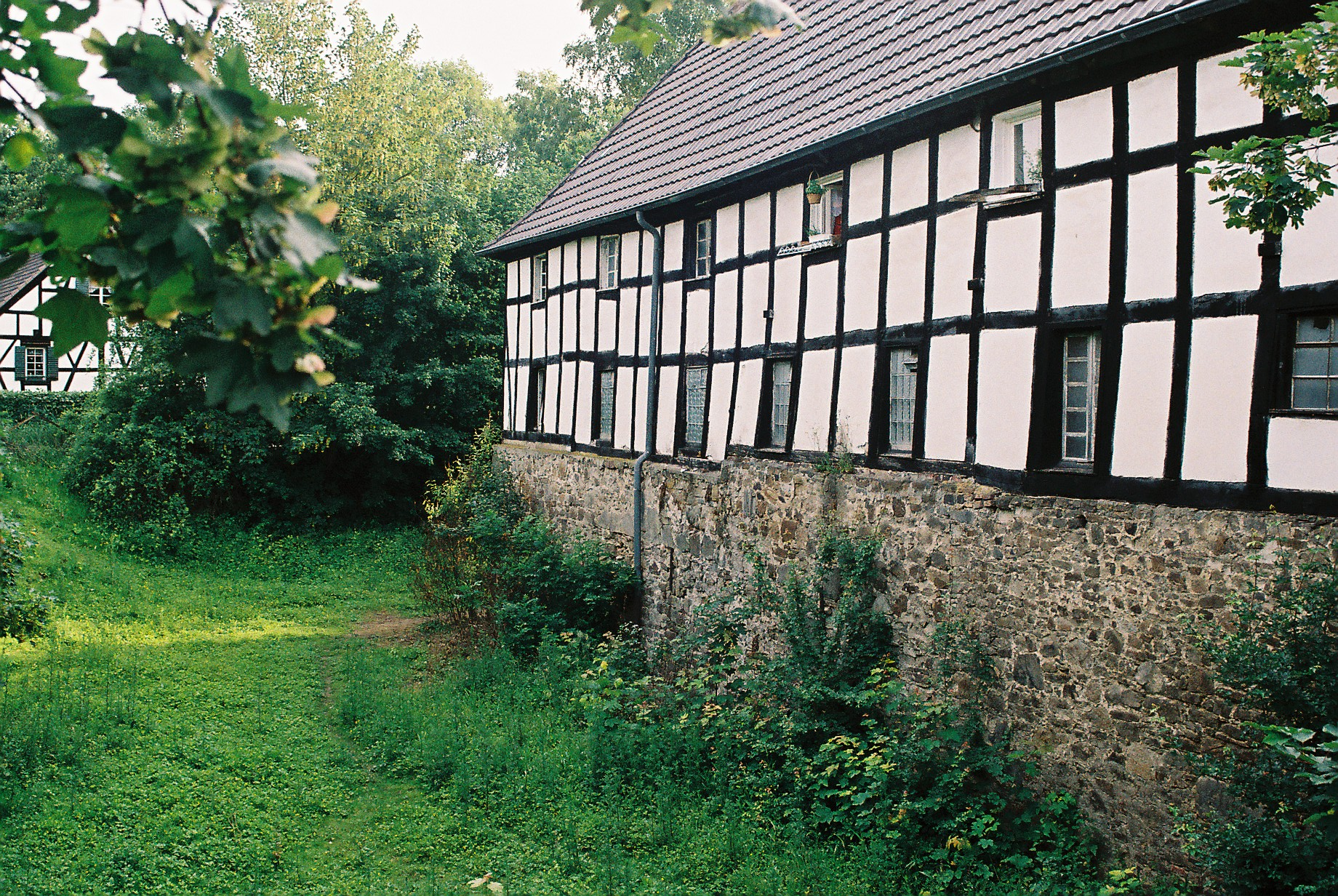 Castle Burg Lohmar, Lohmar, southern corner of the eastern wing with moat